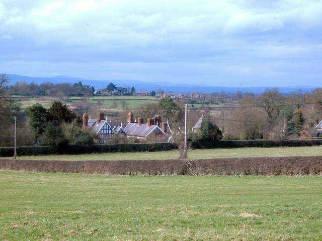 Lower Carden Hall. Lower Carden Hall seen from Carden footpath 6 near Stone House (260m, 305° bearing). Typical small Cheshire country house with a view across the Cheshire Plain to the Welsh hills in the distance.